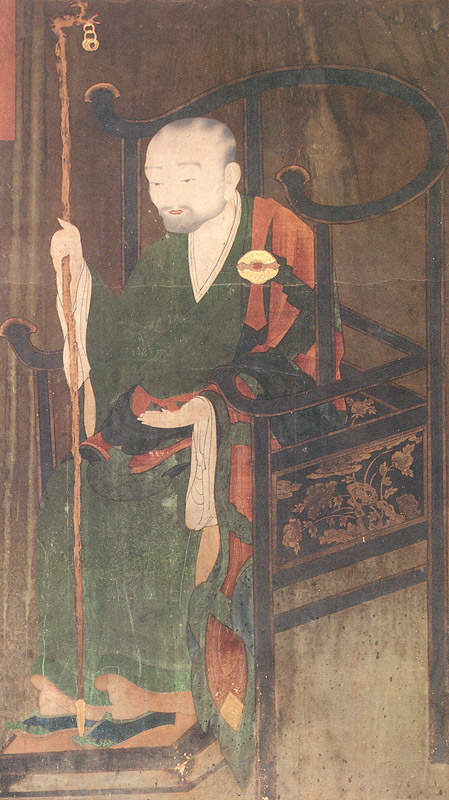 Portrait of Jinul in Songgwangsa Temple